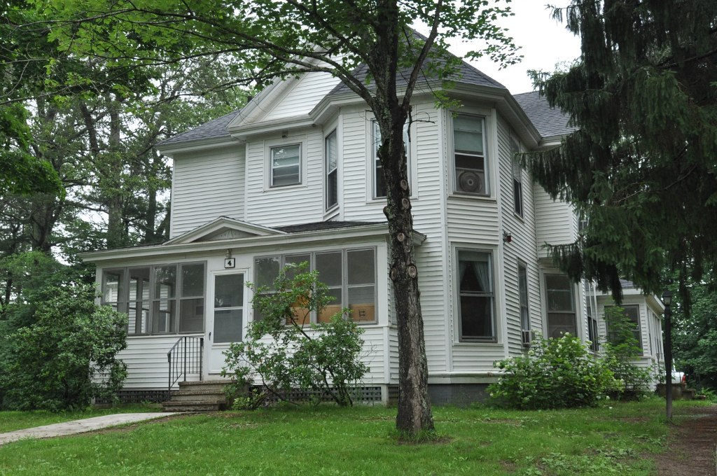 Togus VA facility, Chelsea, ME